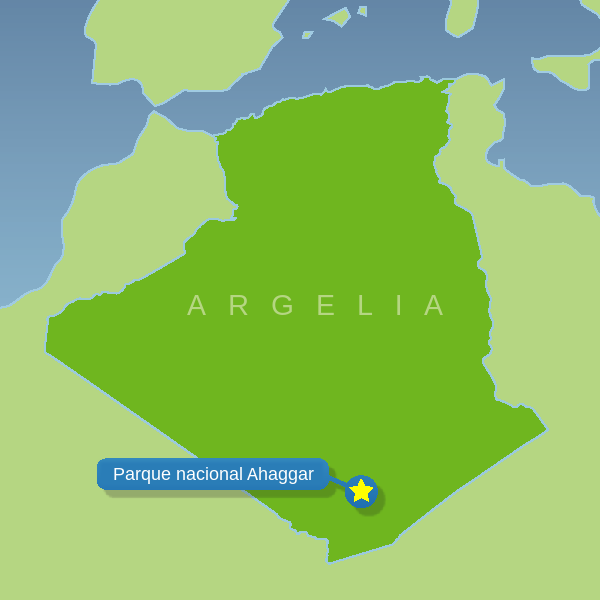 Map of National parks of Algeria, Ahggar (Hoggar) National park. Author= M.GASMI. In Spanish